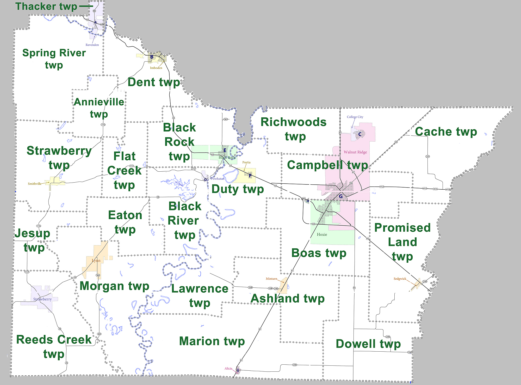 Large map showing townships in Lawrence County, Arkansas. Modified from US census map (for 2010 census) for Lawrence County, Arkansas